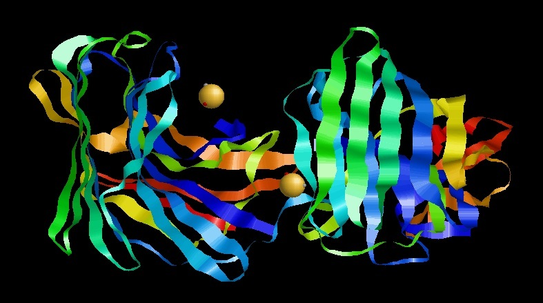 Aspergilloglutamic peptidase dimer, PMID 22569035, PDB 3TRS visualized with RasMol